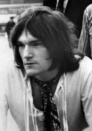 Crop of File:Brian Auger and the Trinity 1970.JPG (Publicity photo of the musical group Brian Auger and the Trinity)